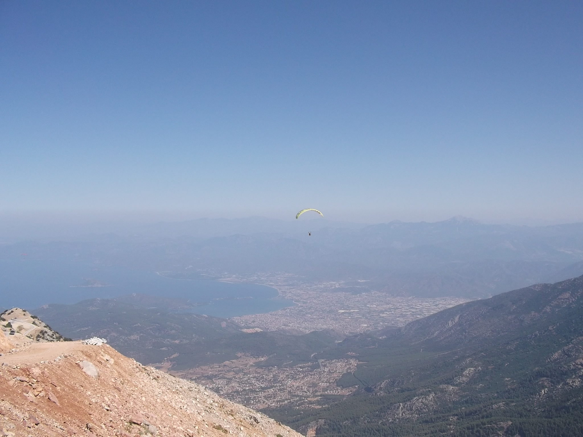 Paragliding in Ölüdeniz, Fethiye.